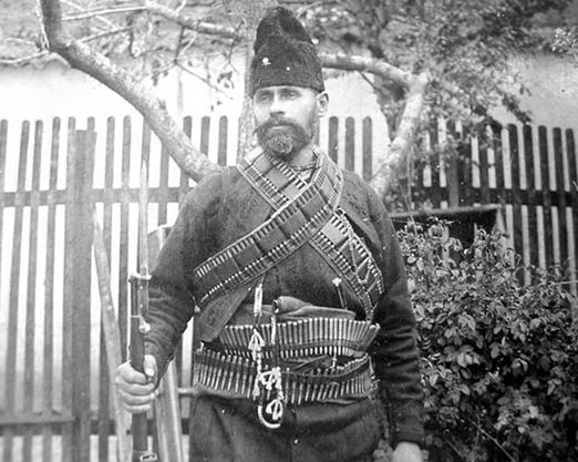 Pavle Mladenović-Čiča (d. June 16, 1905), Serbian Chetnik commander. Photography taken in a series (see also photo of Lazar Kujundžić).